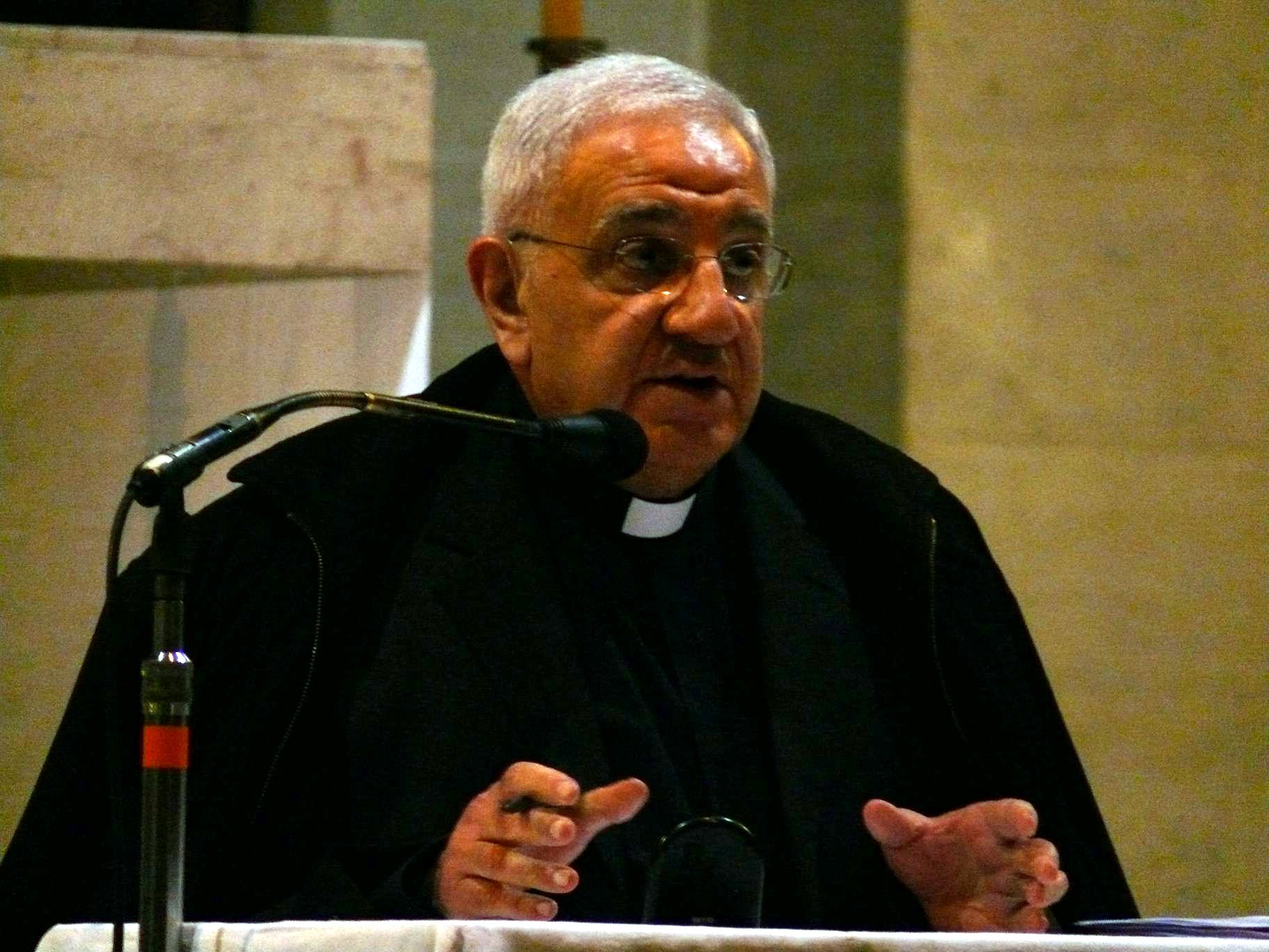 Monsignor Tony Anatrella during a conference in Lille (Nord, France).